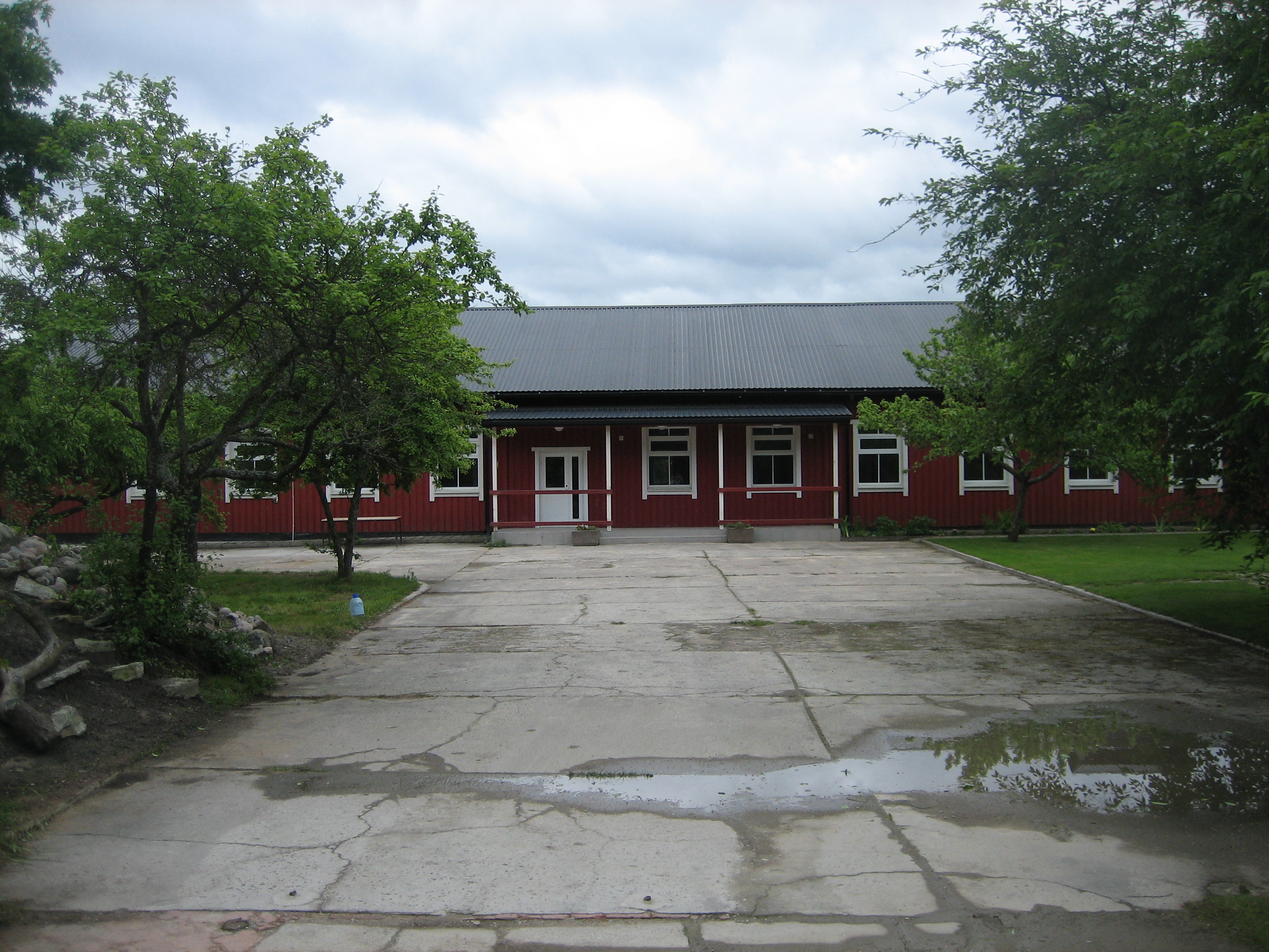 ~ Neeme playschool named Mudila